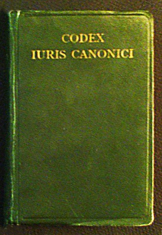 The cover of a copy of the 1917 Code of Canon Law (Codex Iuris Canonici).